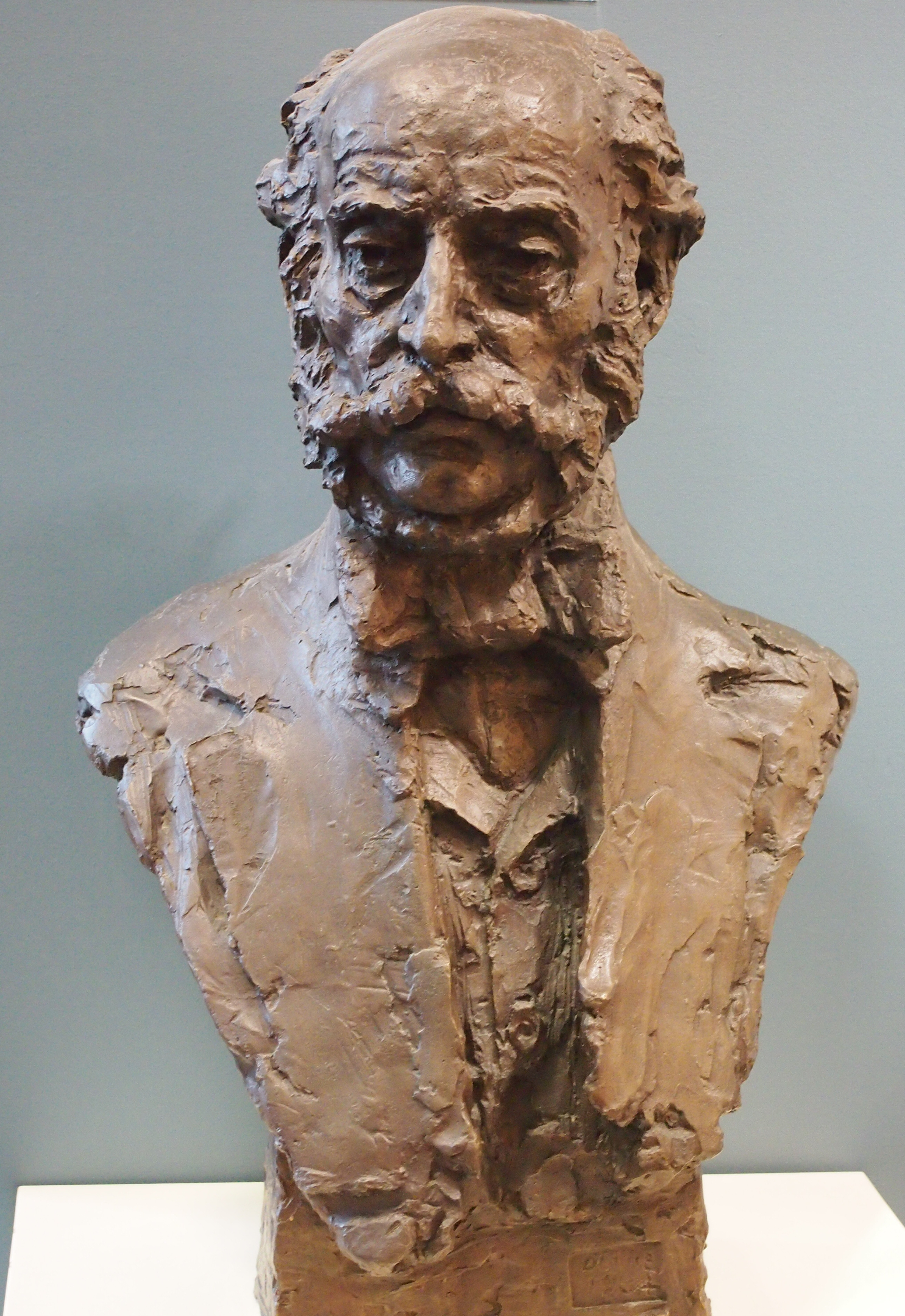 Bust of Robert Torrens by the sculptor John Dowie, located in the Land Titles Office, Adelaide. The plaque below the bust states: SIR ROBERT RICHARD TORRENS K.C.M.G., G.C.M.G (1814-1884) Commissioned by THE LAND BROKERS SOCIETY INCORPORATED to commemorate the introduction of the world's first Torrens System of land titles in South Australia in 1858 and the creation of Land Brokers in 1860. Sculptor John Dowie Original filename = P2211094.JPG, cropped